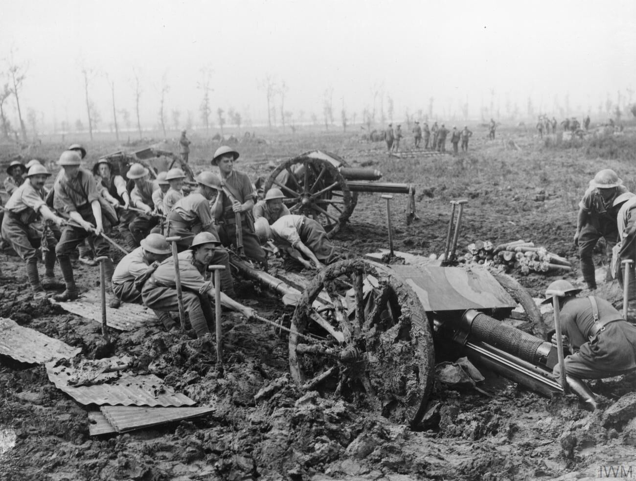 HAULING A GUN OUT OF THE MUD, ZILLEBEKE, 1917 British soldiers haul an 18 pdr field gun out of the mud near Zillebeke.